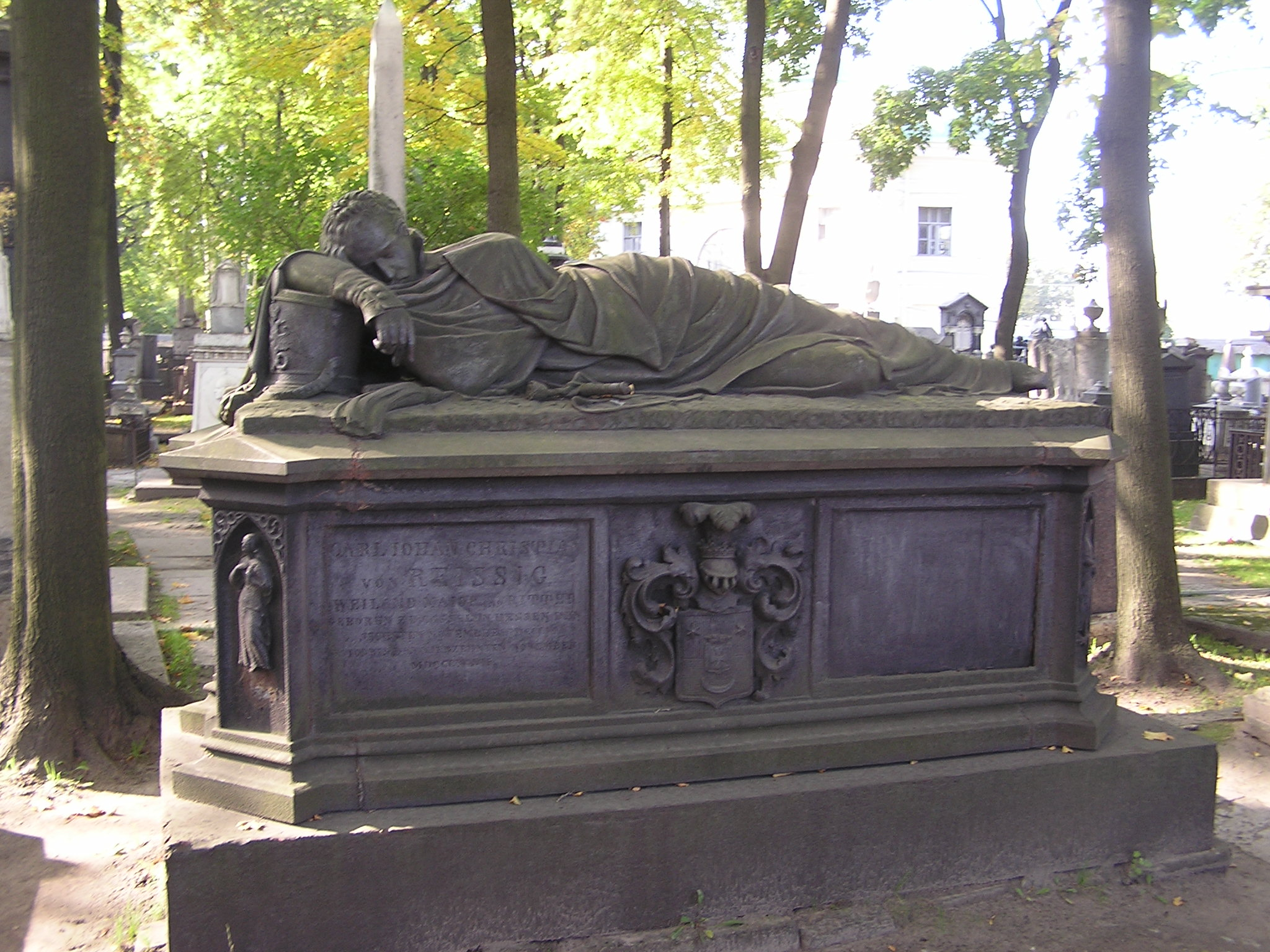 Lazarev Cemetery